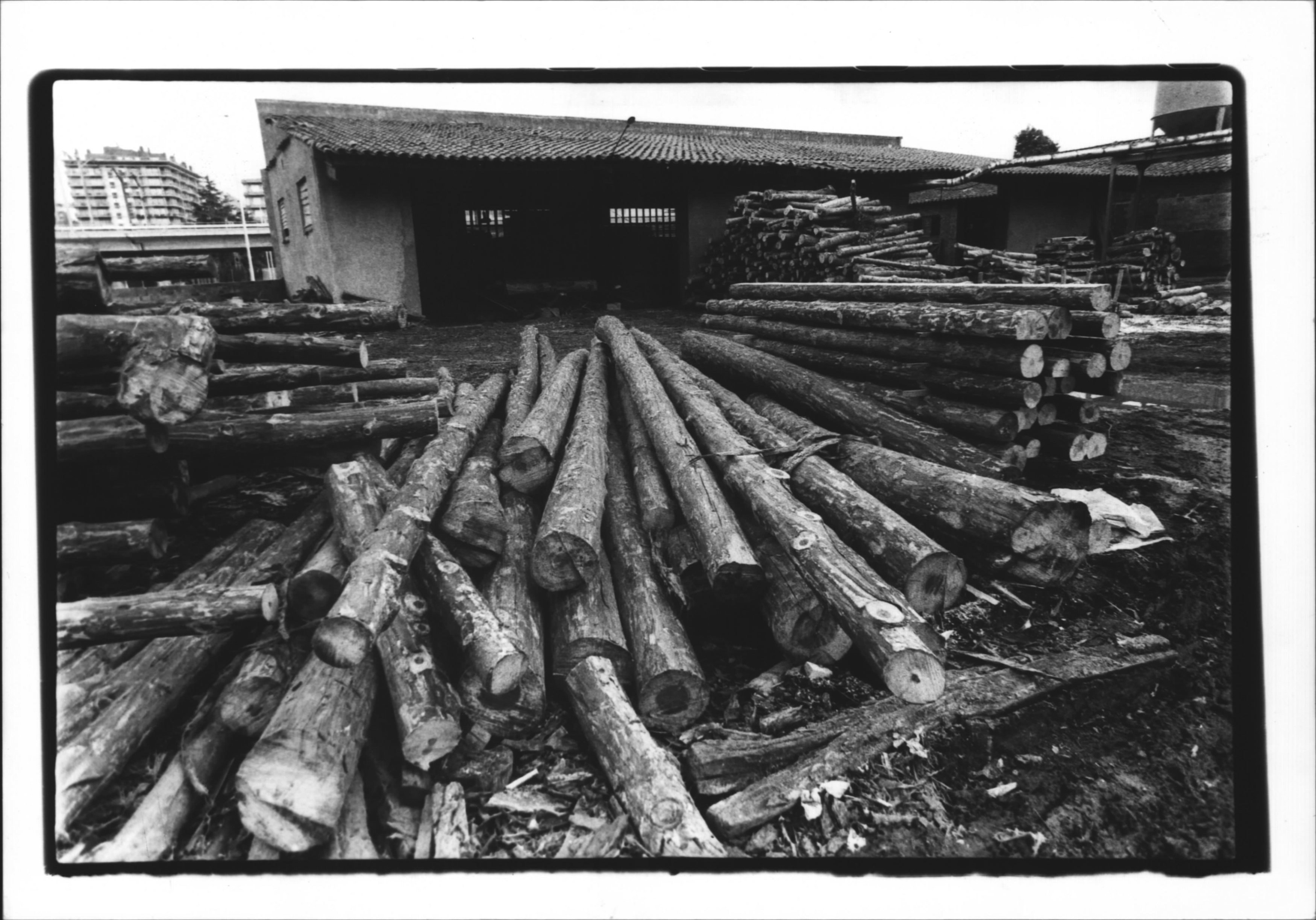 Fustes Coll Viader. Girona.